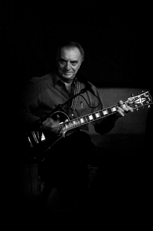 The Guitarist Lou Pallo on Les Paul's Trio Live Les Paul and His Trio Live @ Iridium Jazz Club in New York City (October 2008) Les Paul and His Trio guitar: Lou Pallo bass: Paul Nowinksi / Nicki Parrott piano: John Colaianni